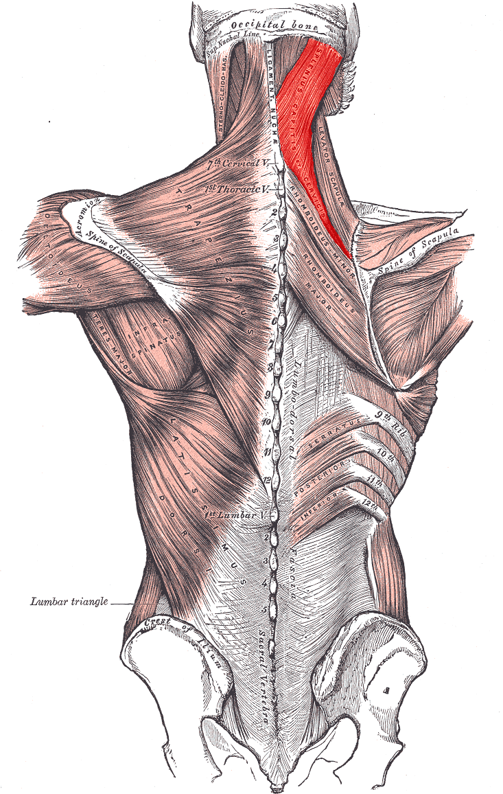 Muscles connecting the upper extremity to the vertebral column.